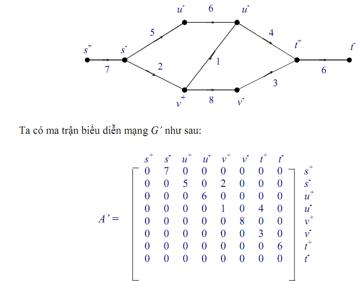 truoc